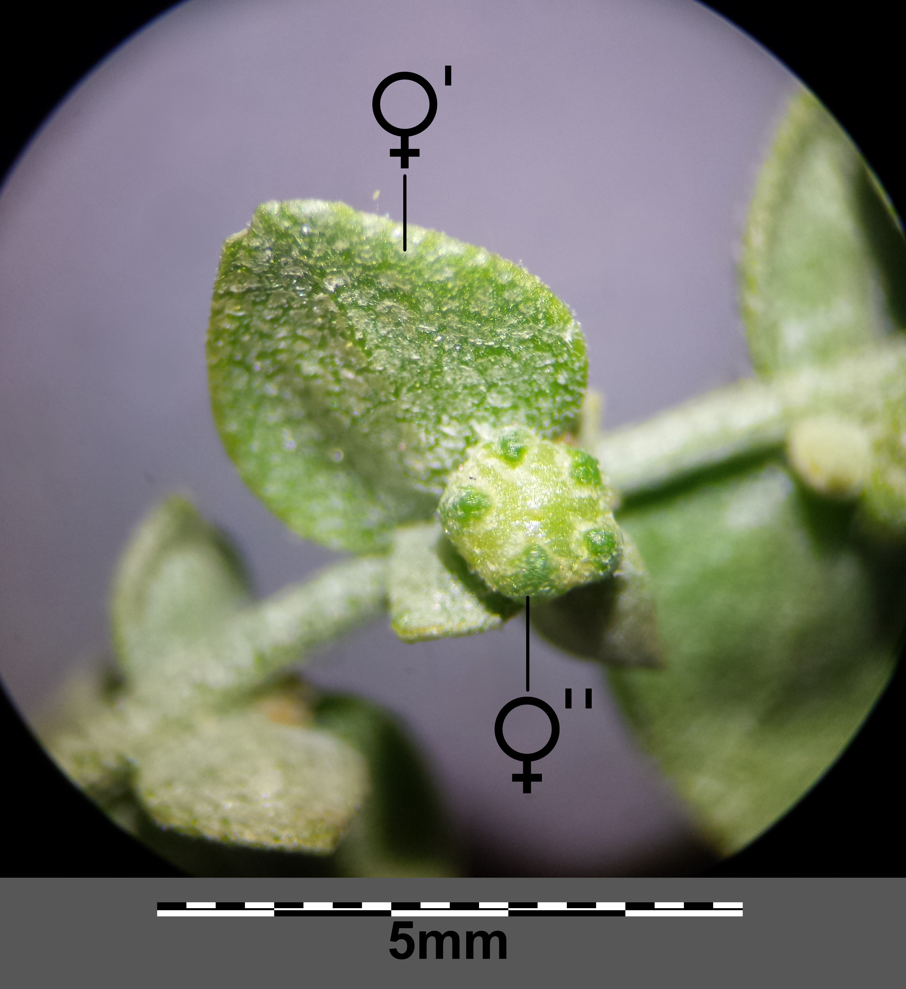 Female flower with two prophylls and no perigone (♀') and female flower with no prophylls and 5 perigone leaves (♀") Taxonym: Atriplex sagittata ss Fischer et al. EfÖLS 2008 ISBN 978-3-85474-187-9 Location: Sinawastingasse, Vienna-Floridsdorf - ca. 160 m a.s.l. Habitat: slope